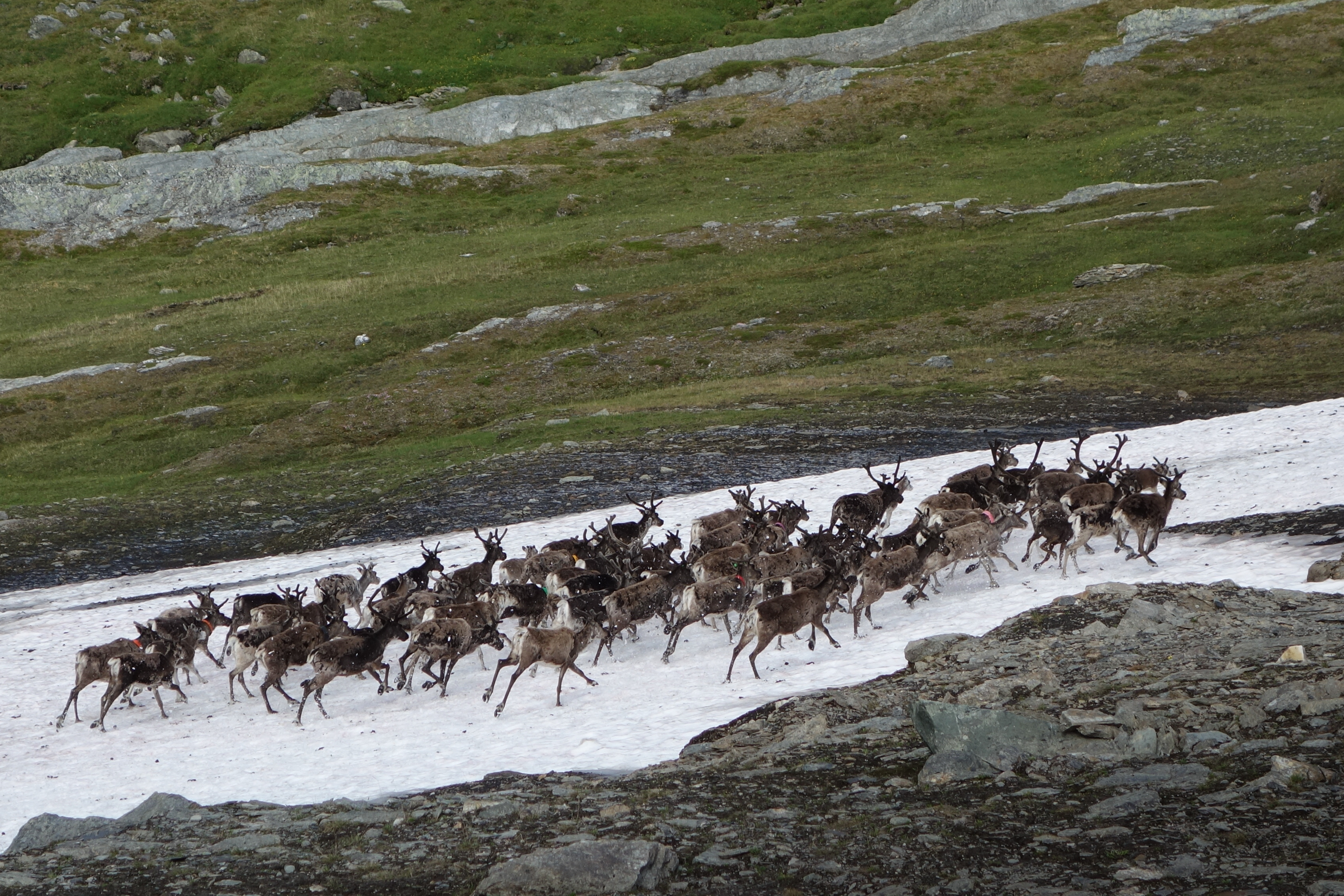 A frightened herd of reindeer